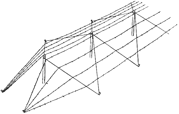 Sketch of a double apron fence, from TM-E 30-480 (1 Oct 1944)